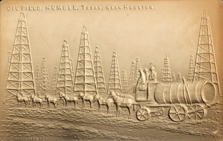 Oil field, embossed postcard, Humble, Texas